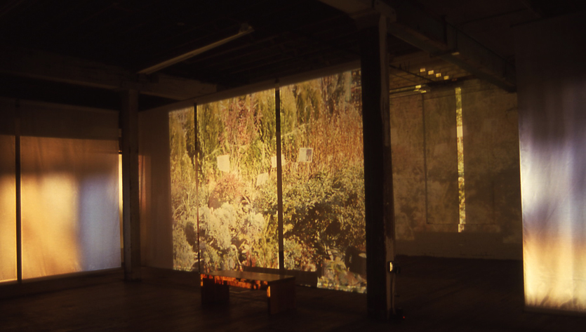 Installation work by British born New York Artist Simon Aldridge